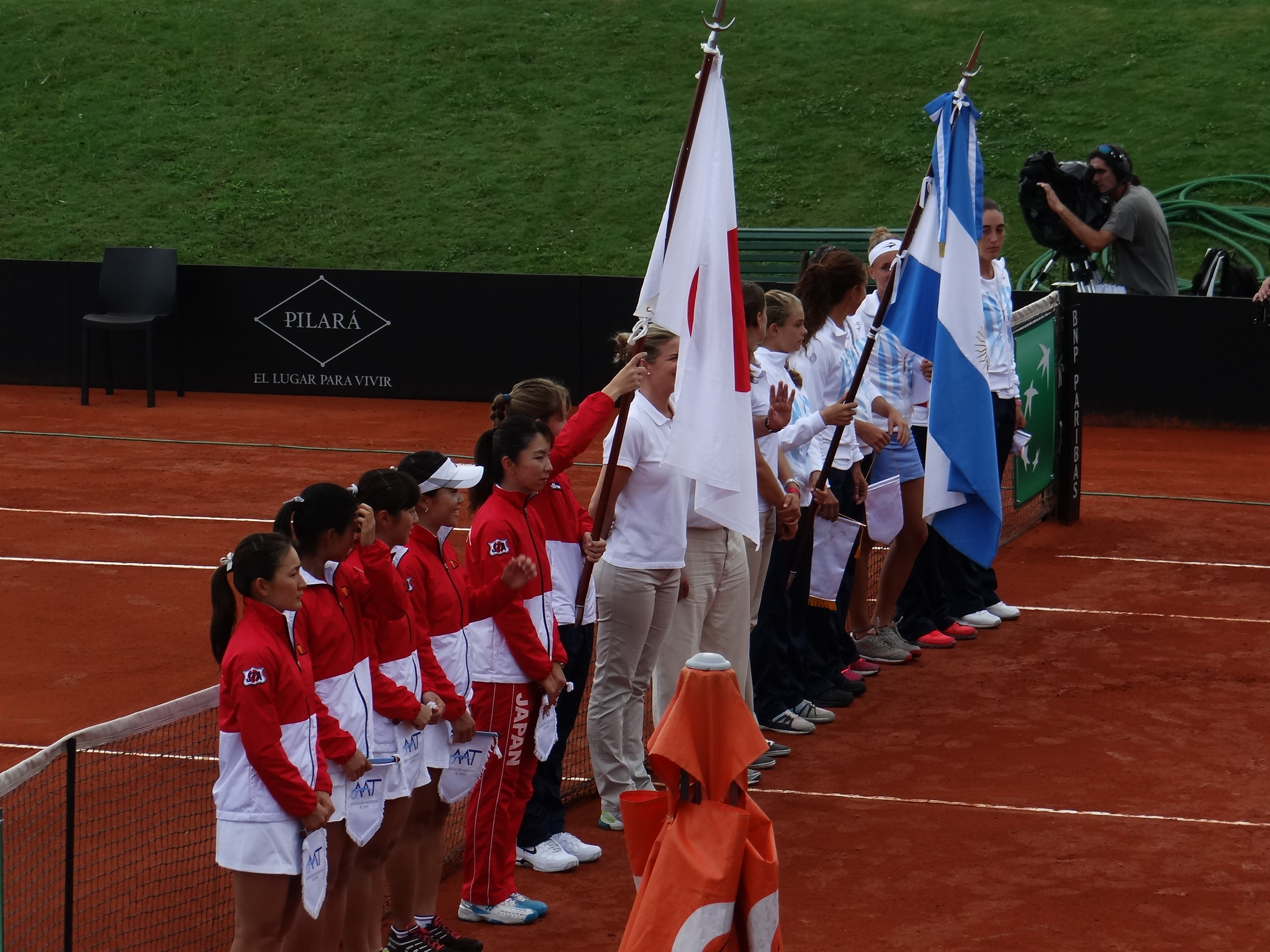 Argentina and Japan Fed Cup teams